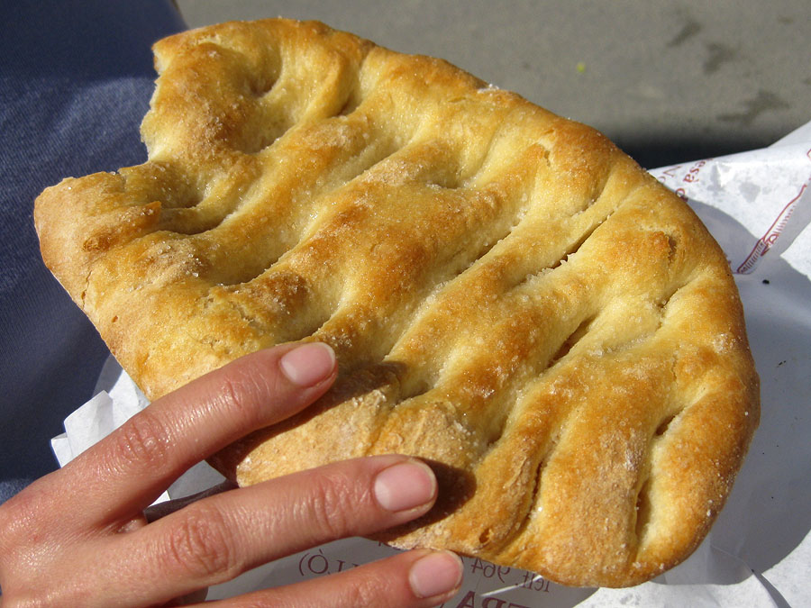 Coca de pa i sal, de Cervera del Maestrat, baix maestrat, País Valencià. Coca de pa i sal, a savoury pastry containing only bread and salt, typical in County Maestrat and other inland counties in the valencian Country and Catalonia.